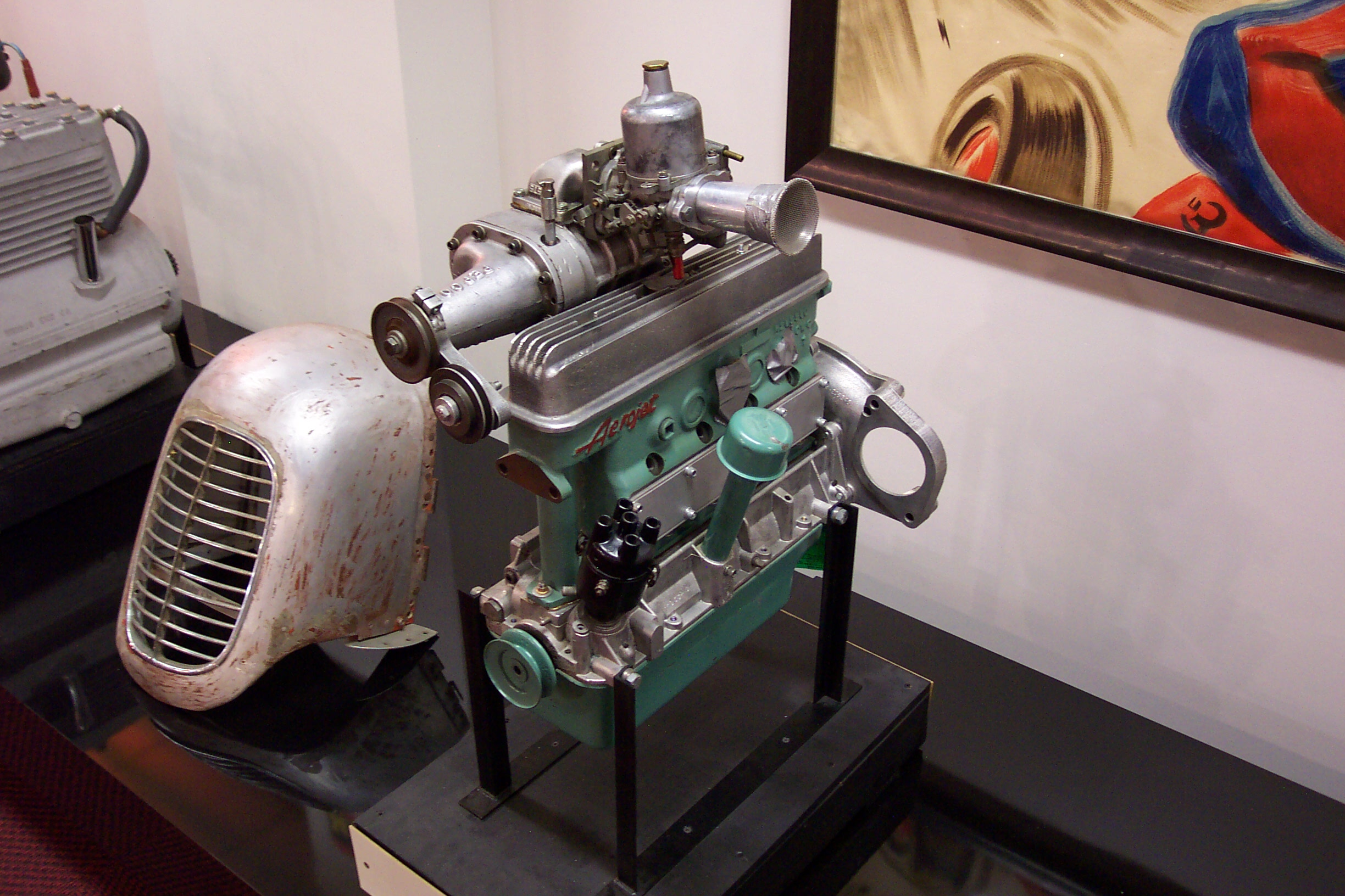 Supercharged Crosley racing engine